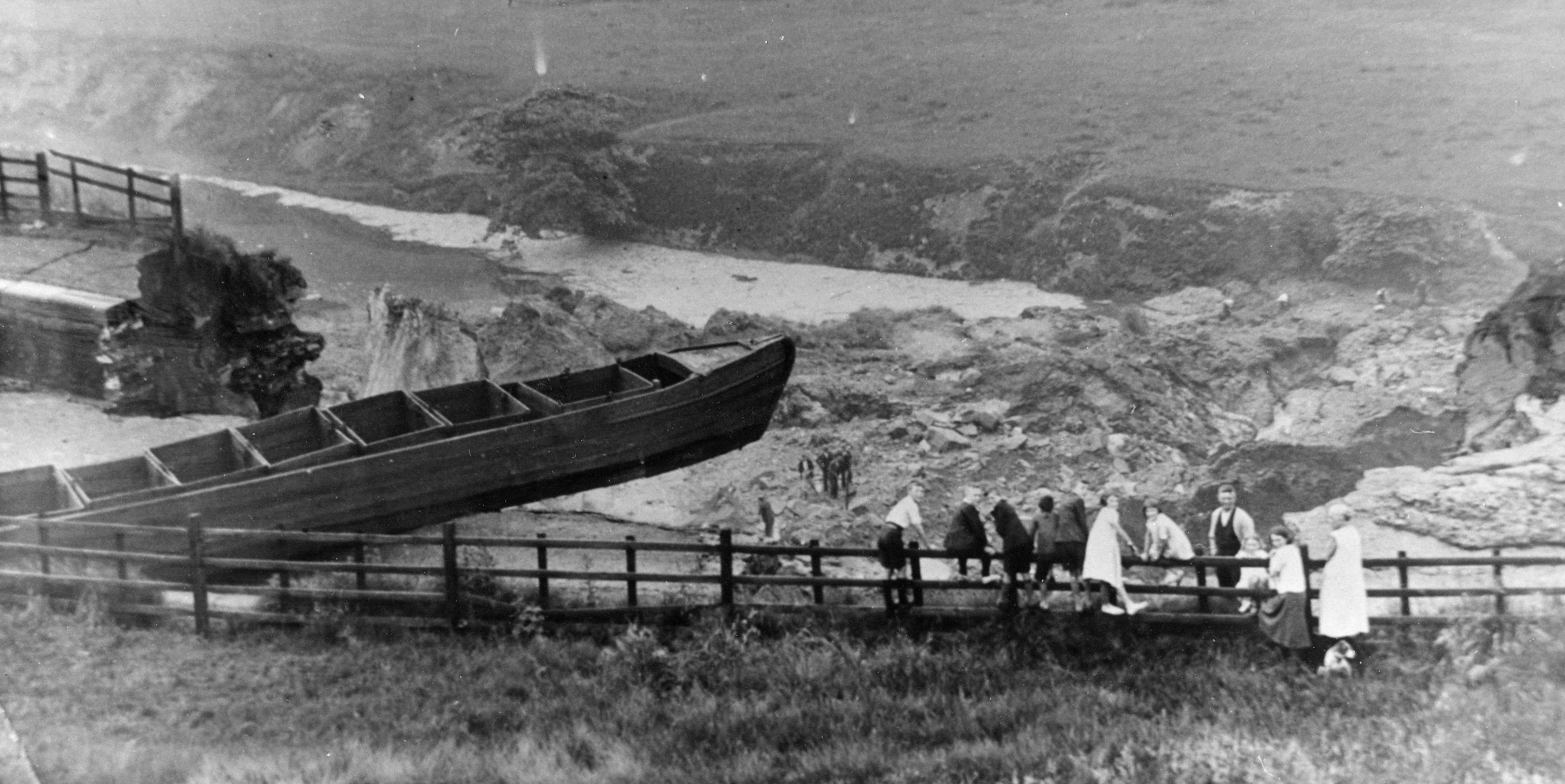 The 1936 breach of the Manchester Bolton & Bury Canal viewed from the north bank.